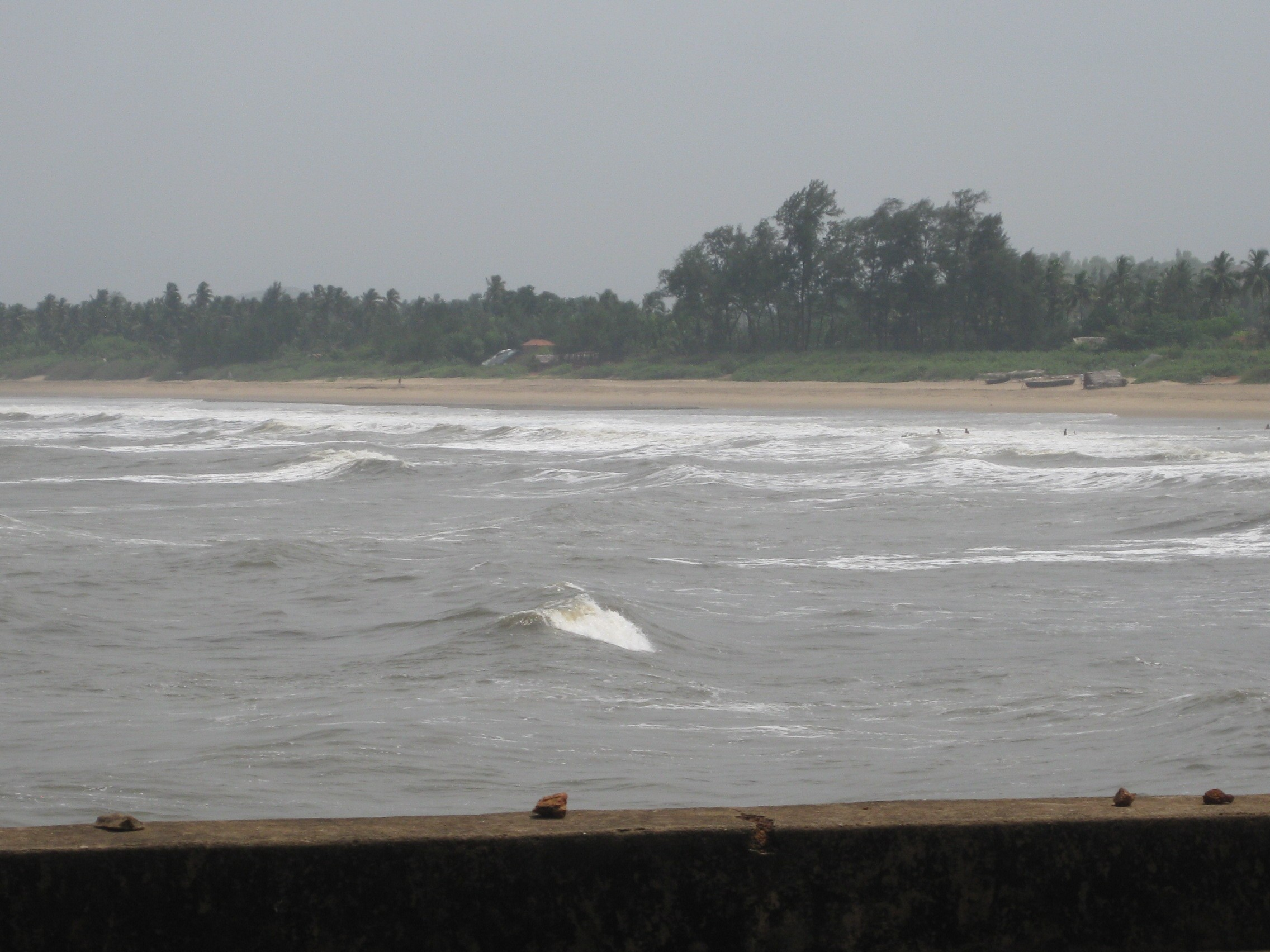 Arabian sea at the city beach in Gokaran